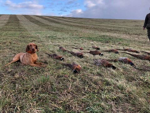 Proud hunter dog